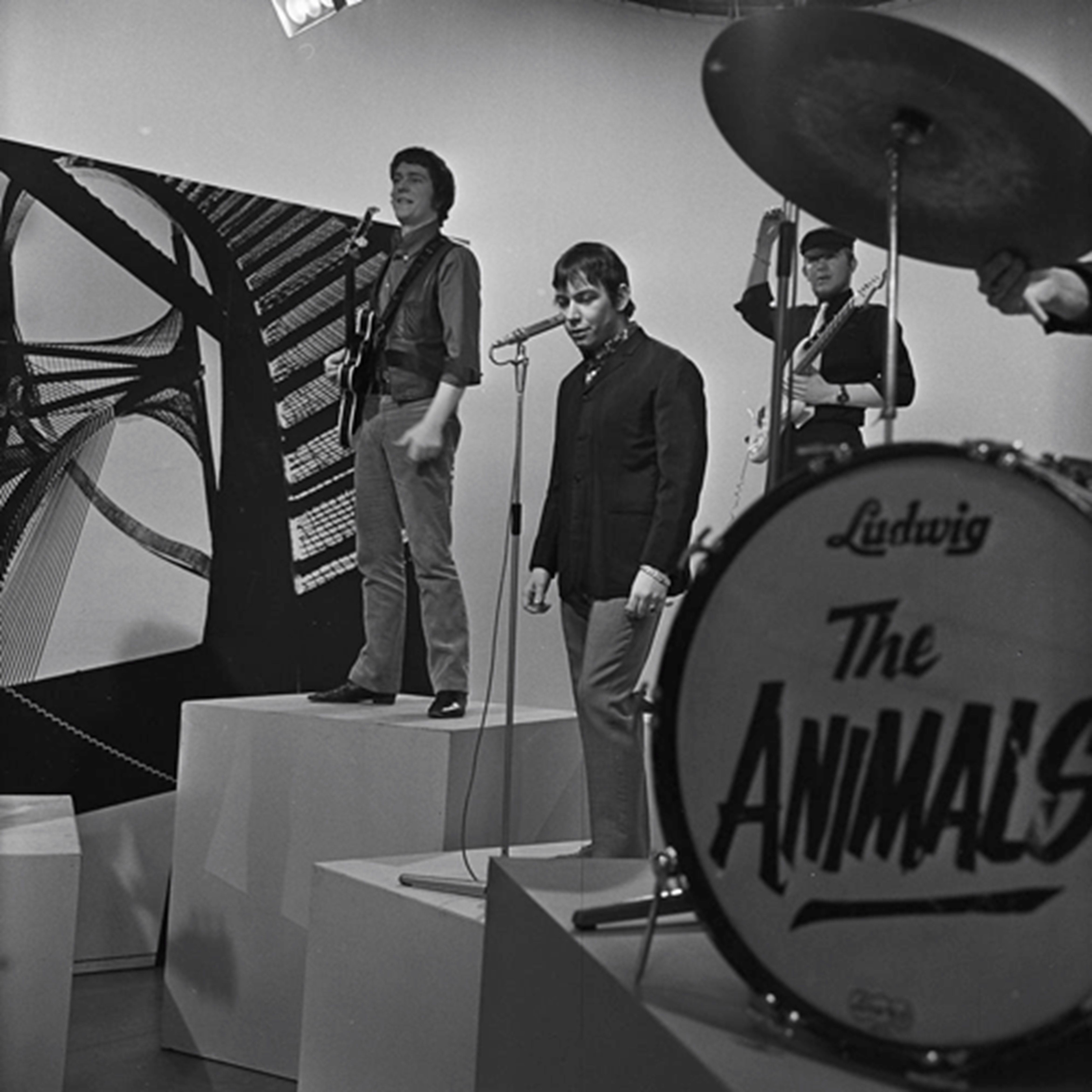 Eric Burdon & The Animals performing the songs "Hey Gyp" and "See see rider" in the Dutch TV programme Fanclub. Recorded 7 January 1967, broadcast 13 January 1967